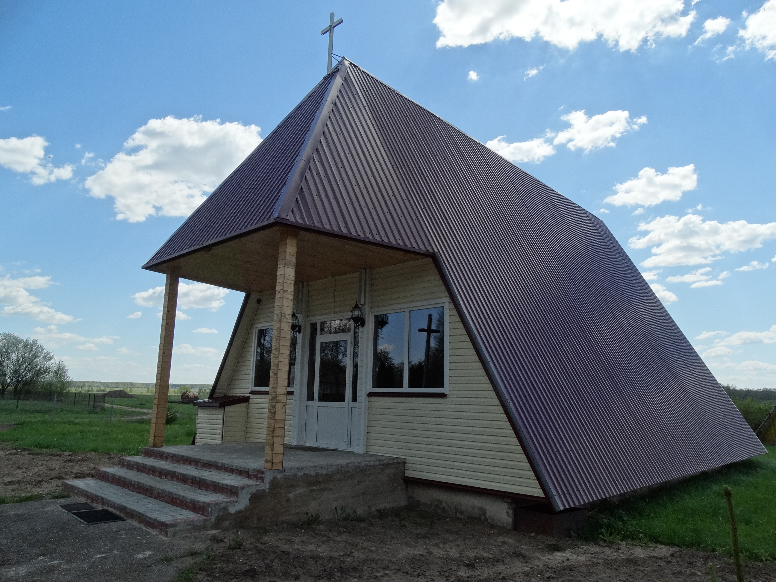 Chapel, Dainava, Šalčininkai District, Lithuania